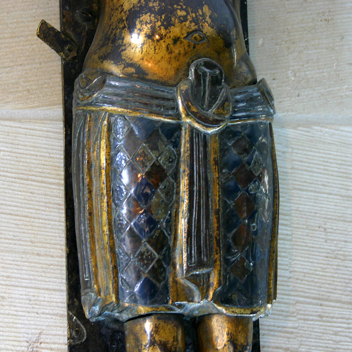 Minden crucifix, treasure chamber of the Minden cathedral, Germany. Loincloth were made by means of the in Niello technique.